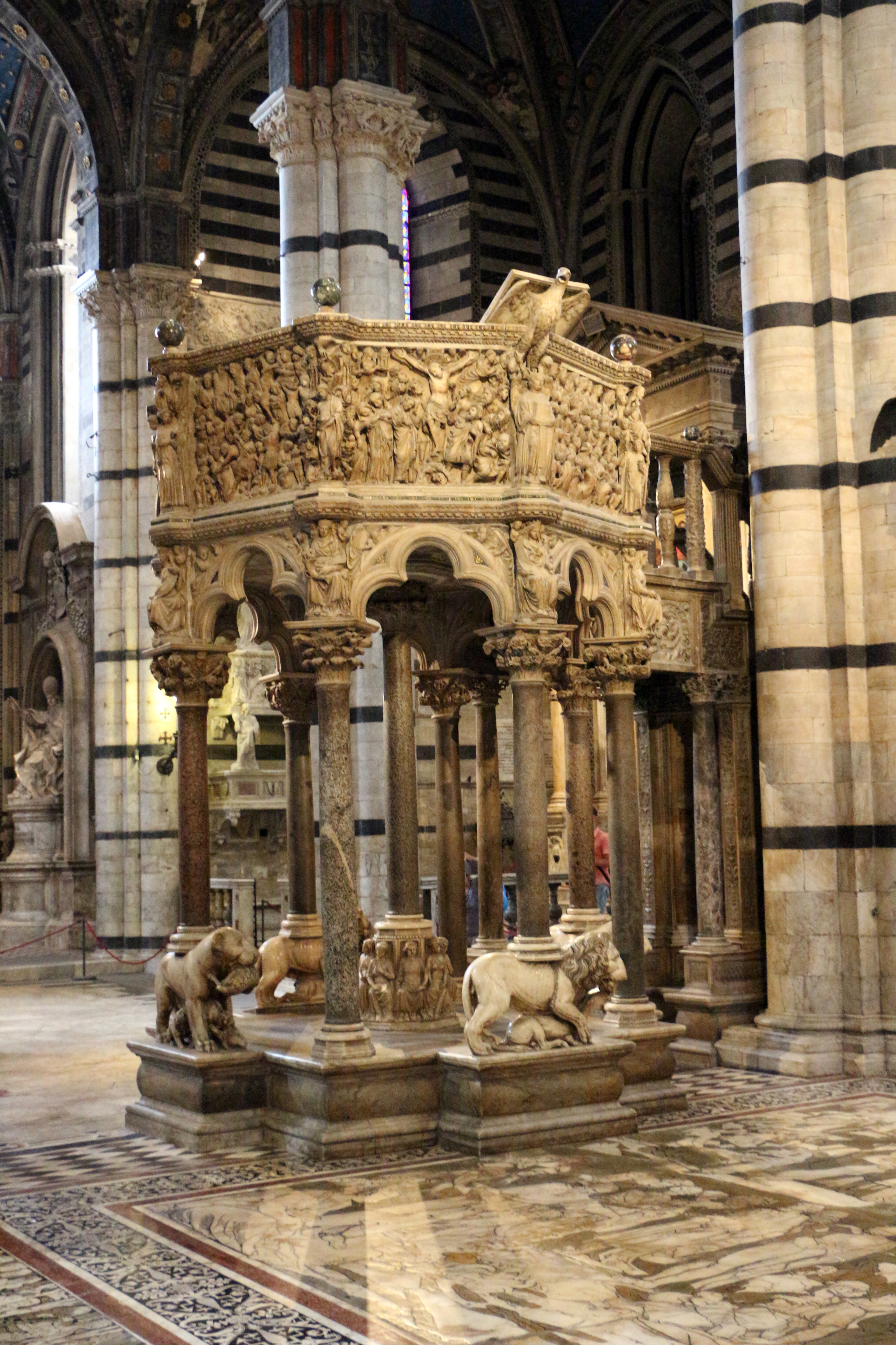 Cathedral (Siena) - Pulpit